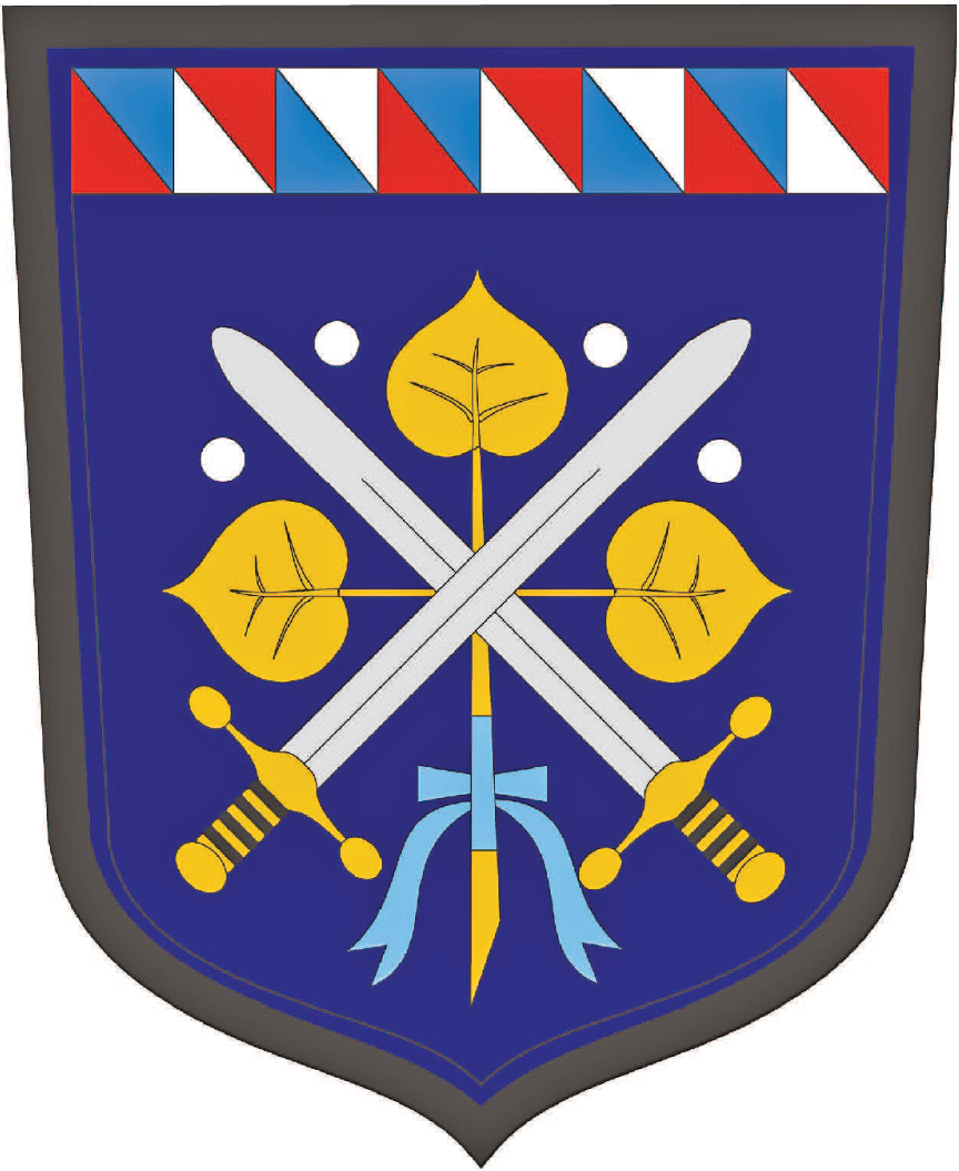 Emblem of the Military Office of President of the Republic (Czech Republic).